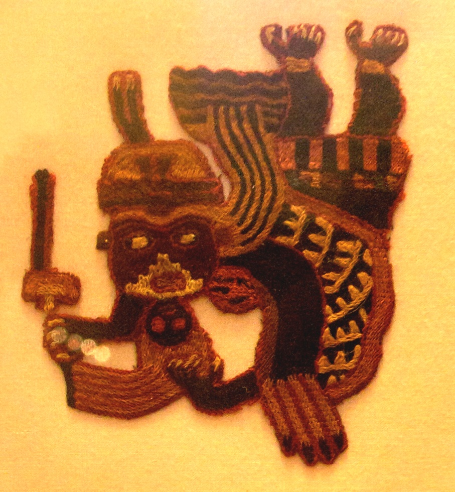 Paracas textile. Object 24 of 100. British Museum. About 300-200 BC. Paracas, Peru. Cloth. AM 1954, 05.563; AM 1954, 05.565; AM 1937,0213.5 & AM 1937,0213.5